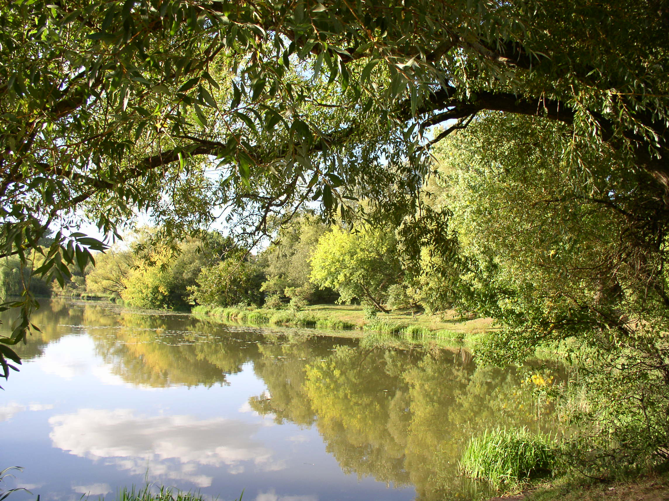 Pond in Loshytsa. Minsk, Belarus.